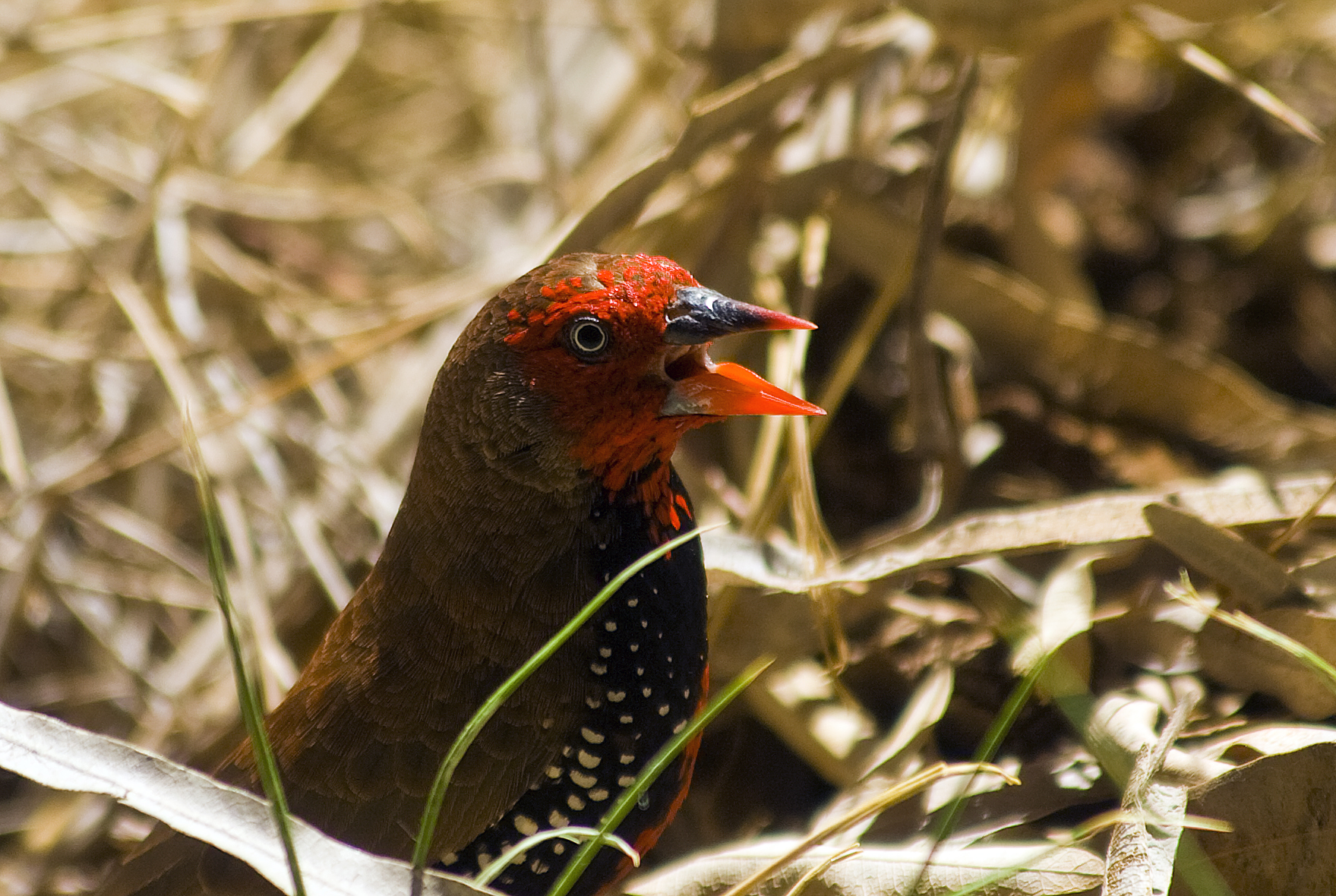 Male Painted Firetail, Alice Springs